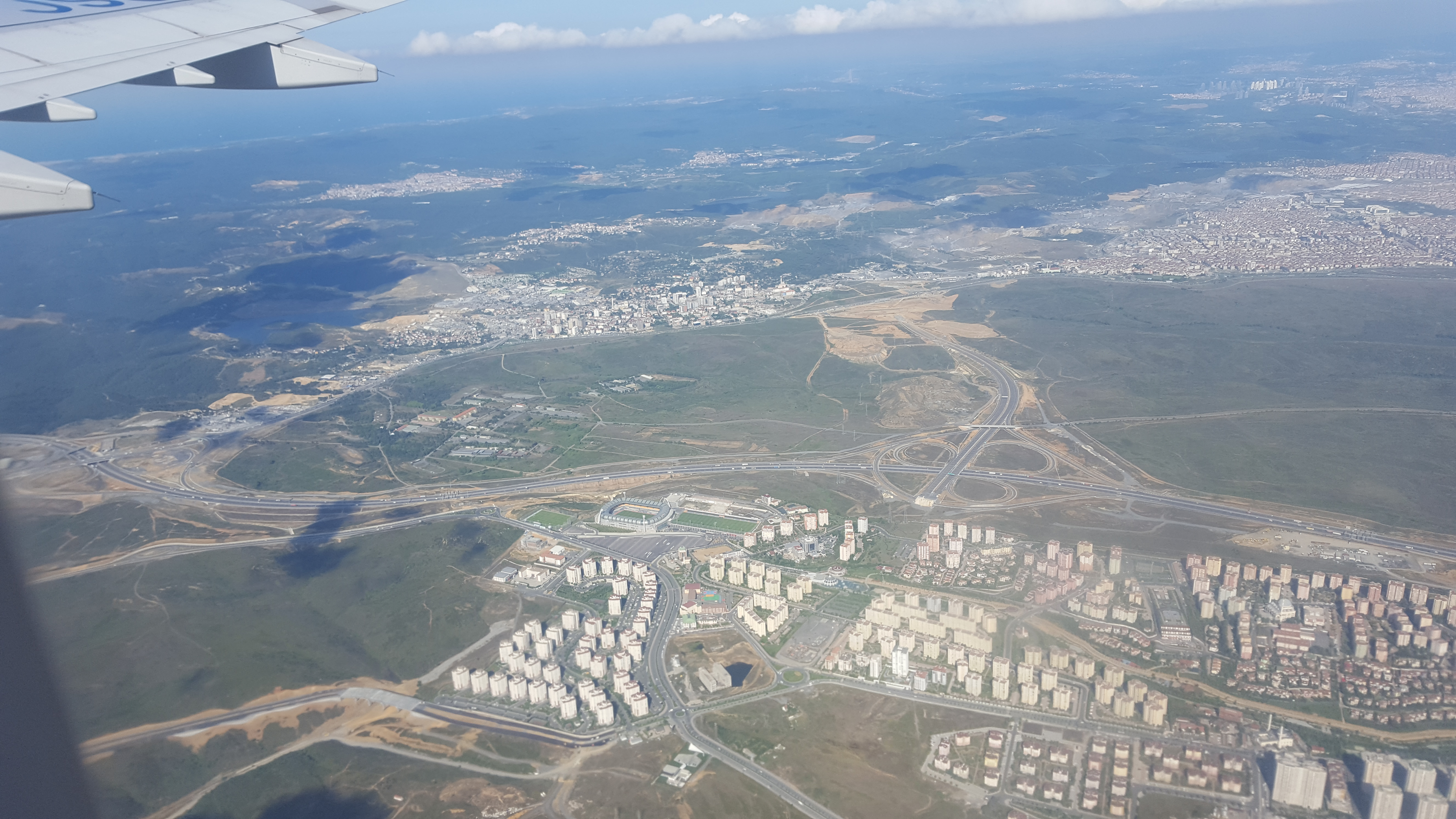 Başakşehir 20170825